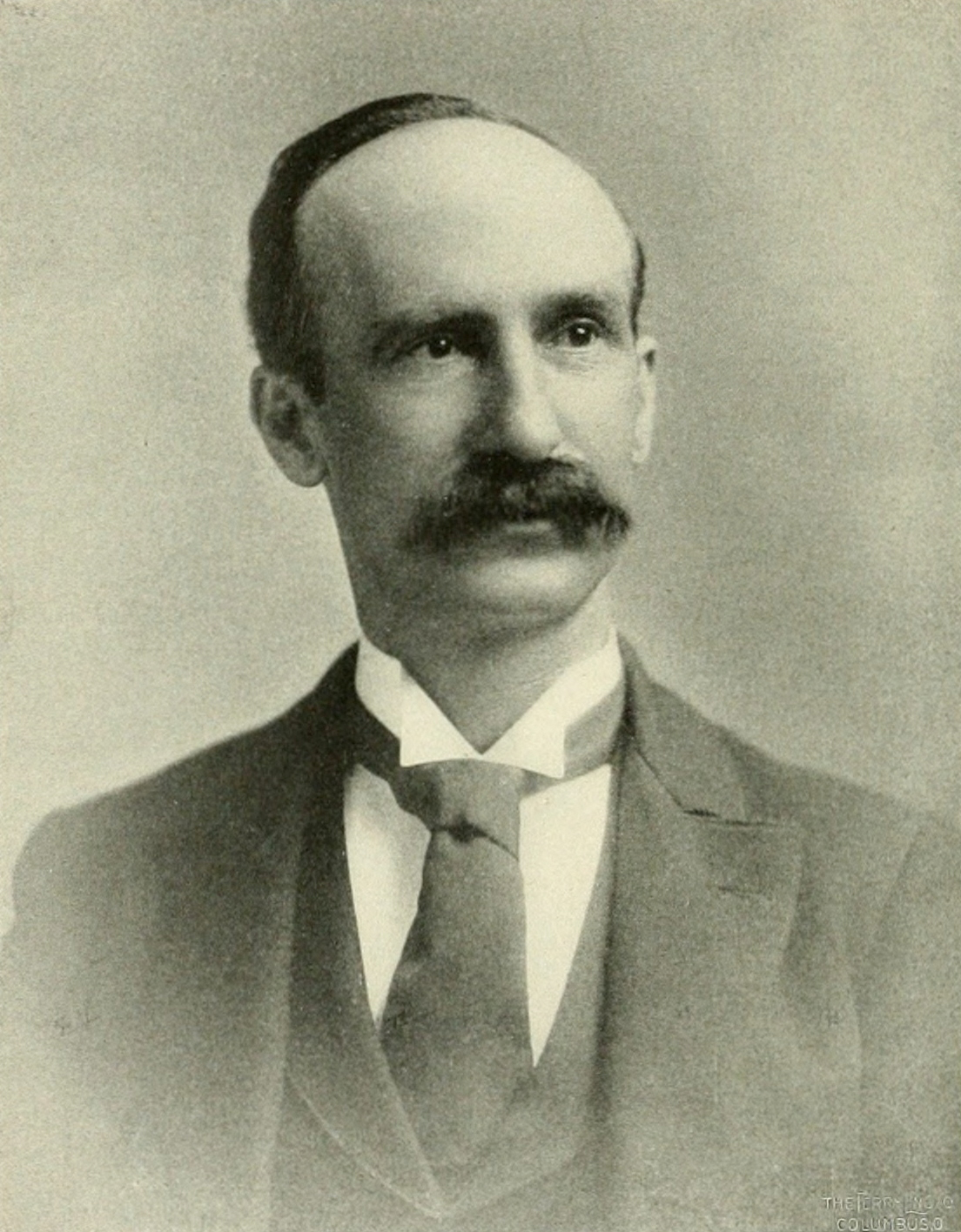 Curtis H. Castle, California Congressman